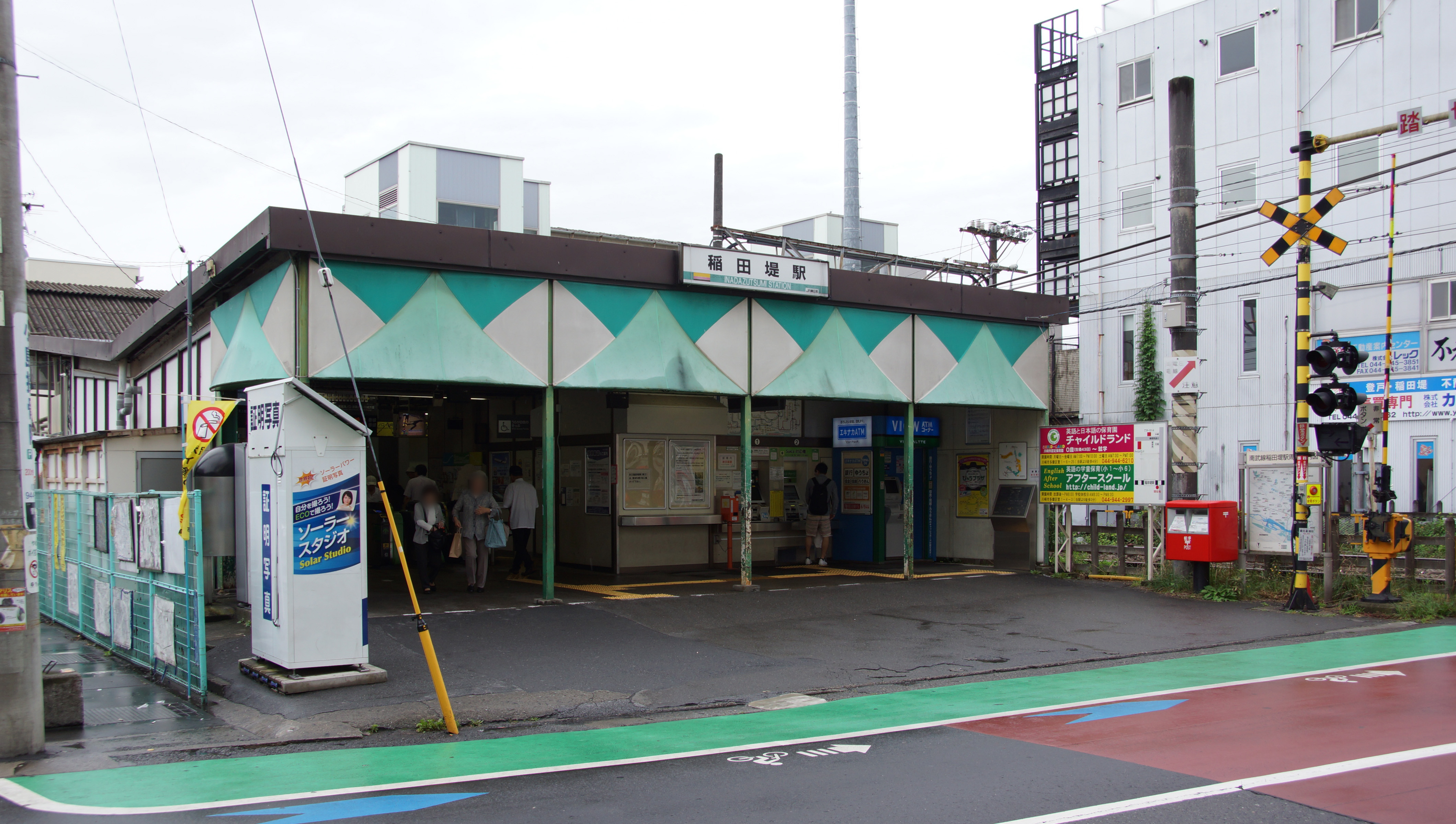 The entrance to Inadazutsumi Station on the Nambu Line in Kanagawa Prefecture, Japan